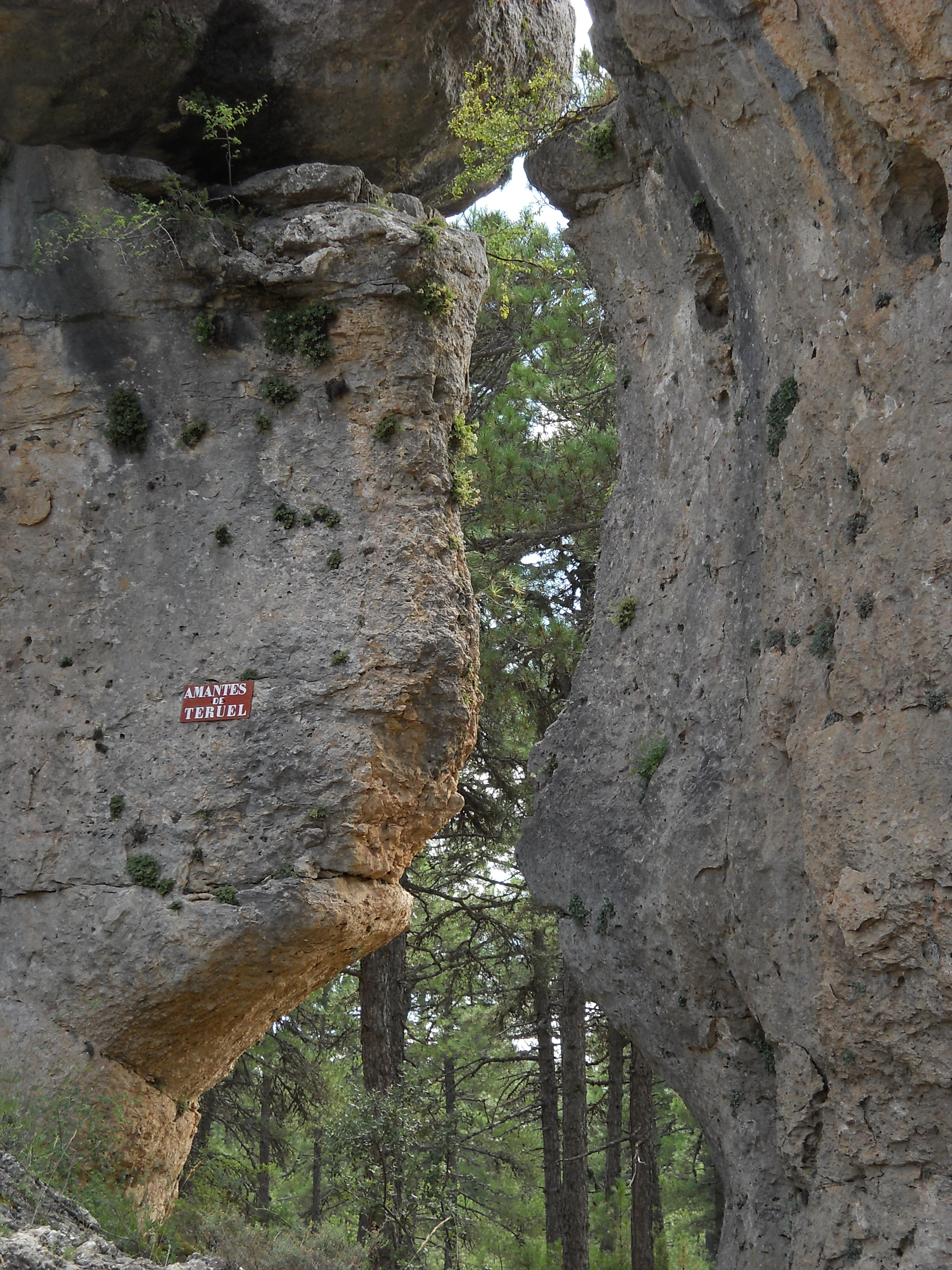 Ciudad Encantada, Cuenca, Spain: the lovers from Teruel